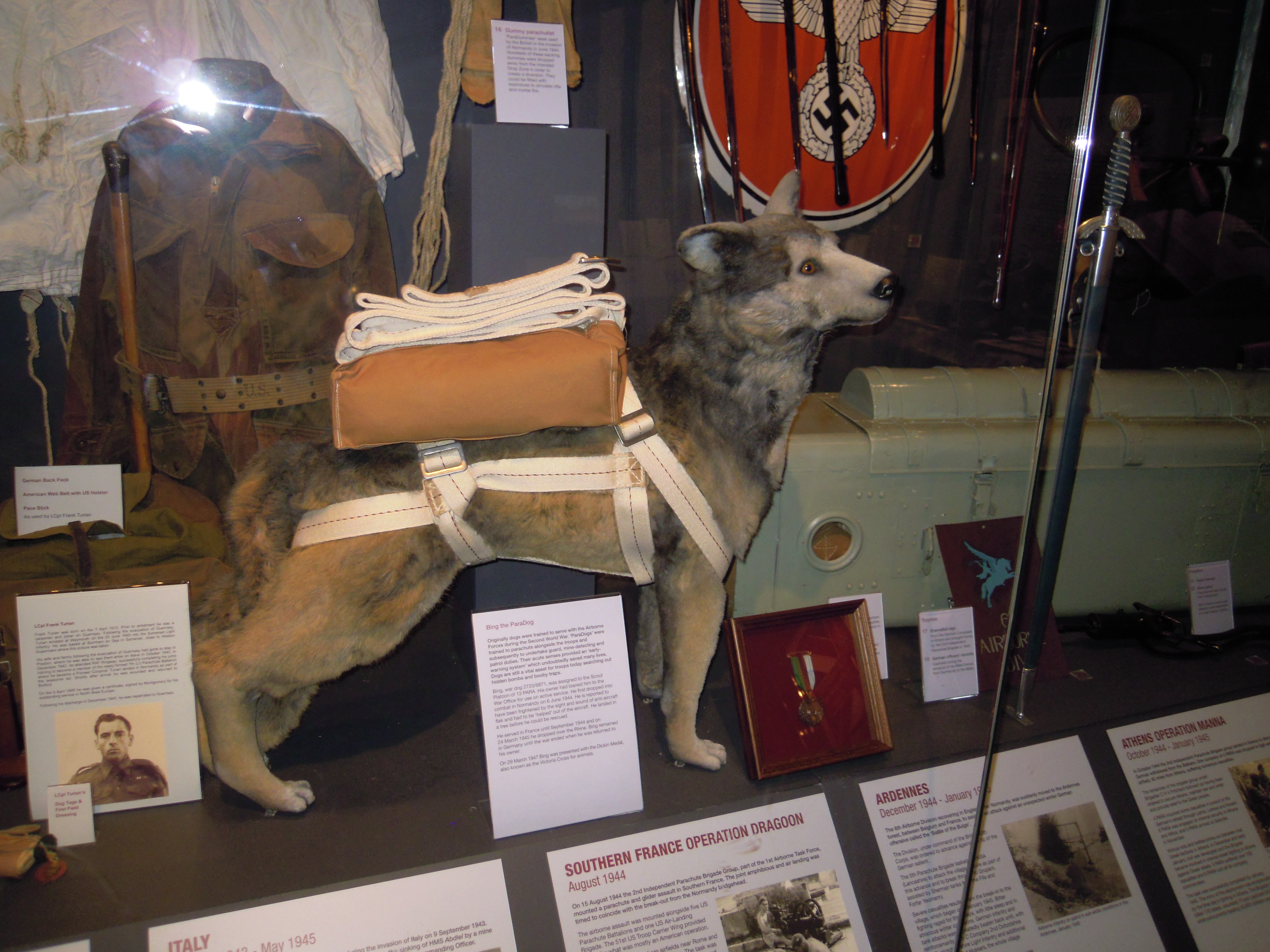 Bing the ParaDog at the Parachute Regiment and Airborne Forces Museum at the Imperial War Museum Duxford